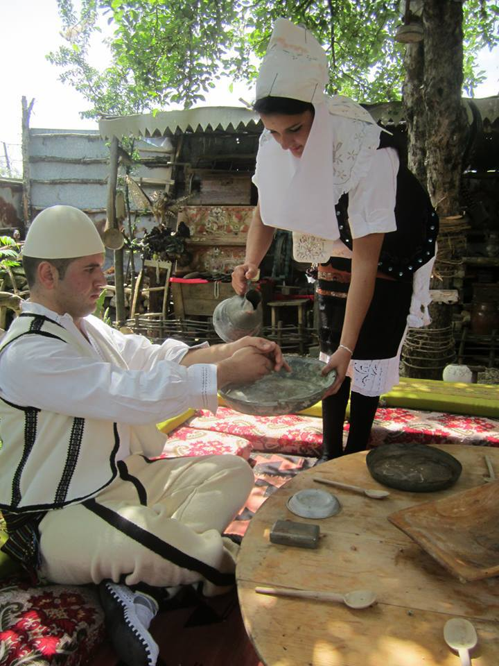 Women and men's traditional Kosovian clothes